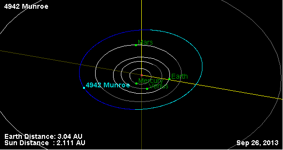 Orbit of 4942 Munroe